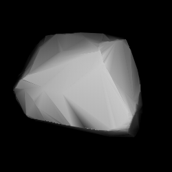 3D convex shape model of 373 Melusina, computed using light curve inversion techniques. J. Hanuš, J. Ďurech, M. Brož, B. D. Warner (June 2011). "A study of asteroid pole-latitude distribution based on an extended set of shape models derived by the lightcurve inversion method". Astronomy and Astrophysics 530: A134. ISSN 0004-6361. arXiv